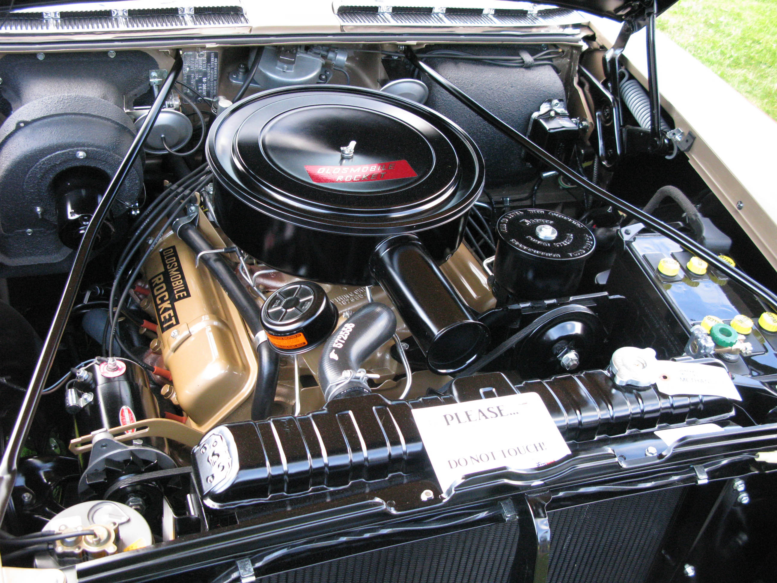 1958 371 cui Oldsmobile Rocket engine. Event: Ånnaboda Classic Motor 2018